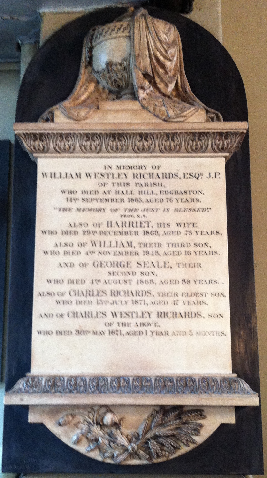 William Westley Richards, died 14 Sep 1865, aged 76. Harriet Richards, his wife, died 29 Dec 1865, aged 73 William, their third son, died 4 Nov 1843 aged 16 George Seale, their second son, died 4 August 1865, aged 58 Charles Richards, their eldest son, died 13 July 1871, aged 47 Charles Westley Richards, son of the above, died 30 May 1871, aged 1 year 5 months.